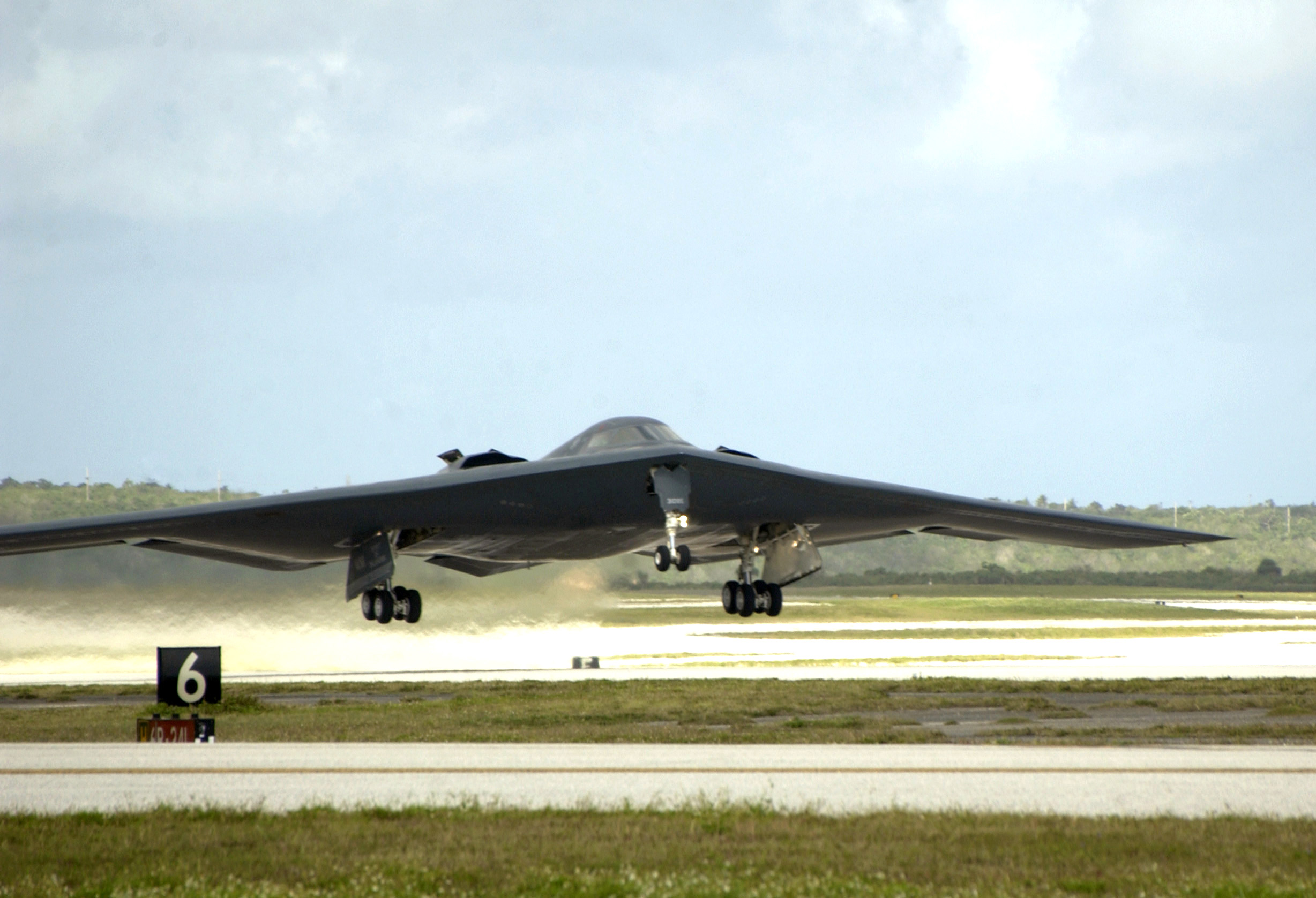 ANDERSEN AIR FORCE BASE, Guam - A B-2 Spirit stealth bomber takes off from here March 30. The B-2 Spirits and more than 270 personnel from the 393rd Bomb Squadron at Whiteman Air Force Base, Mo., are deployed here in support of Pacific Command's continuous bomber presence in the Asia-Pacific region.